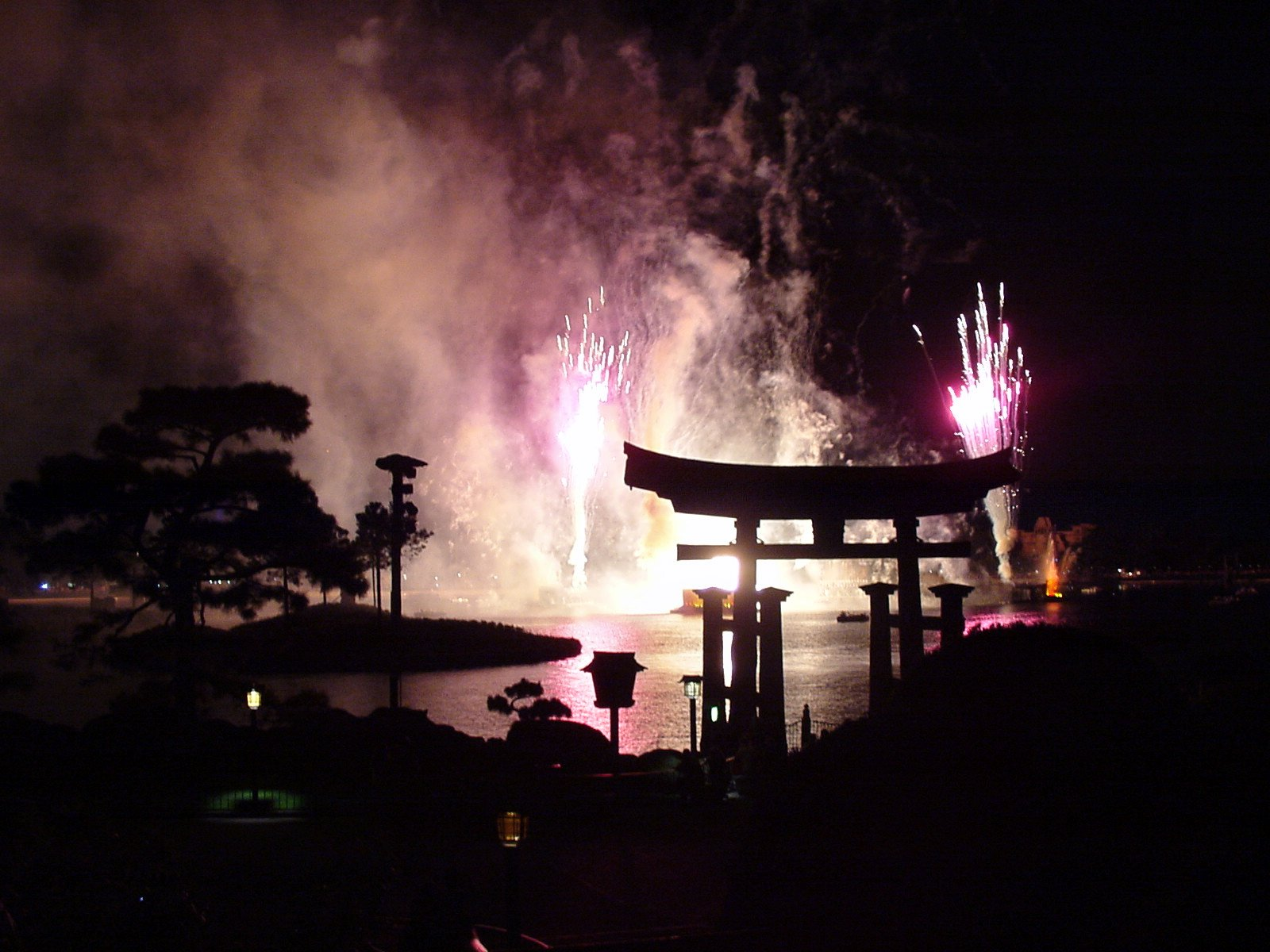 Photo of the show "IllumiNations: Reflections of Earth, Epcot", seen from the Japan Pavilion at Disney World in 2002